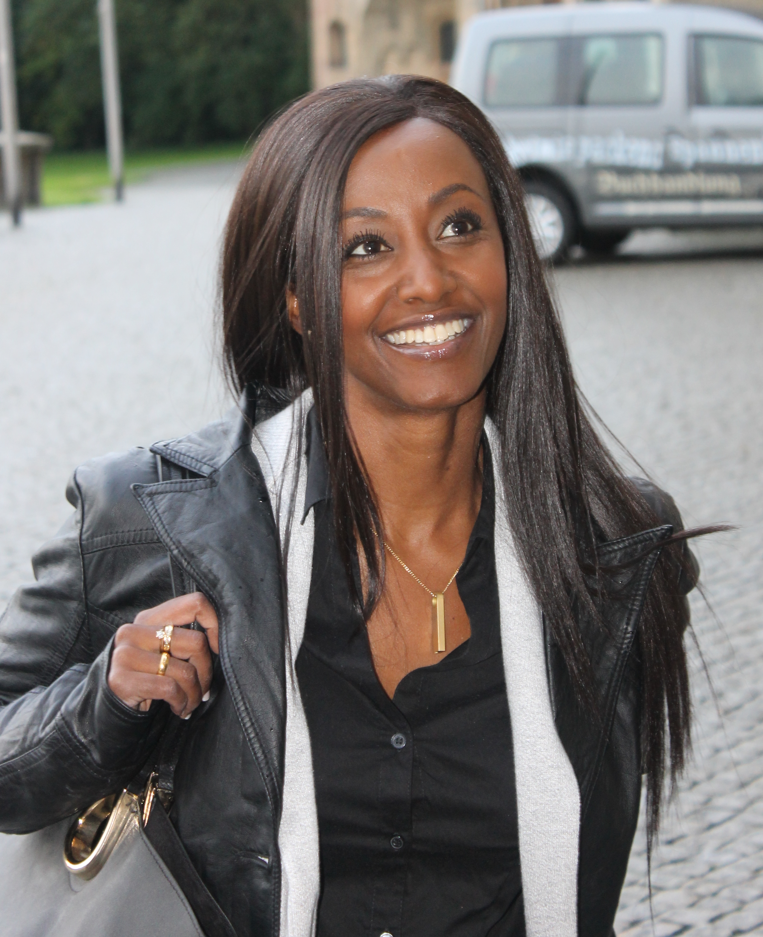 Swedish author Jenny Rogneby at a reading in Goslar